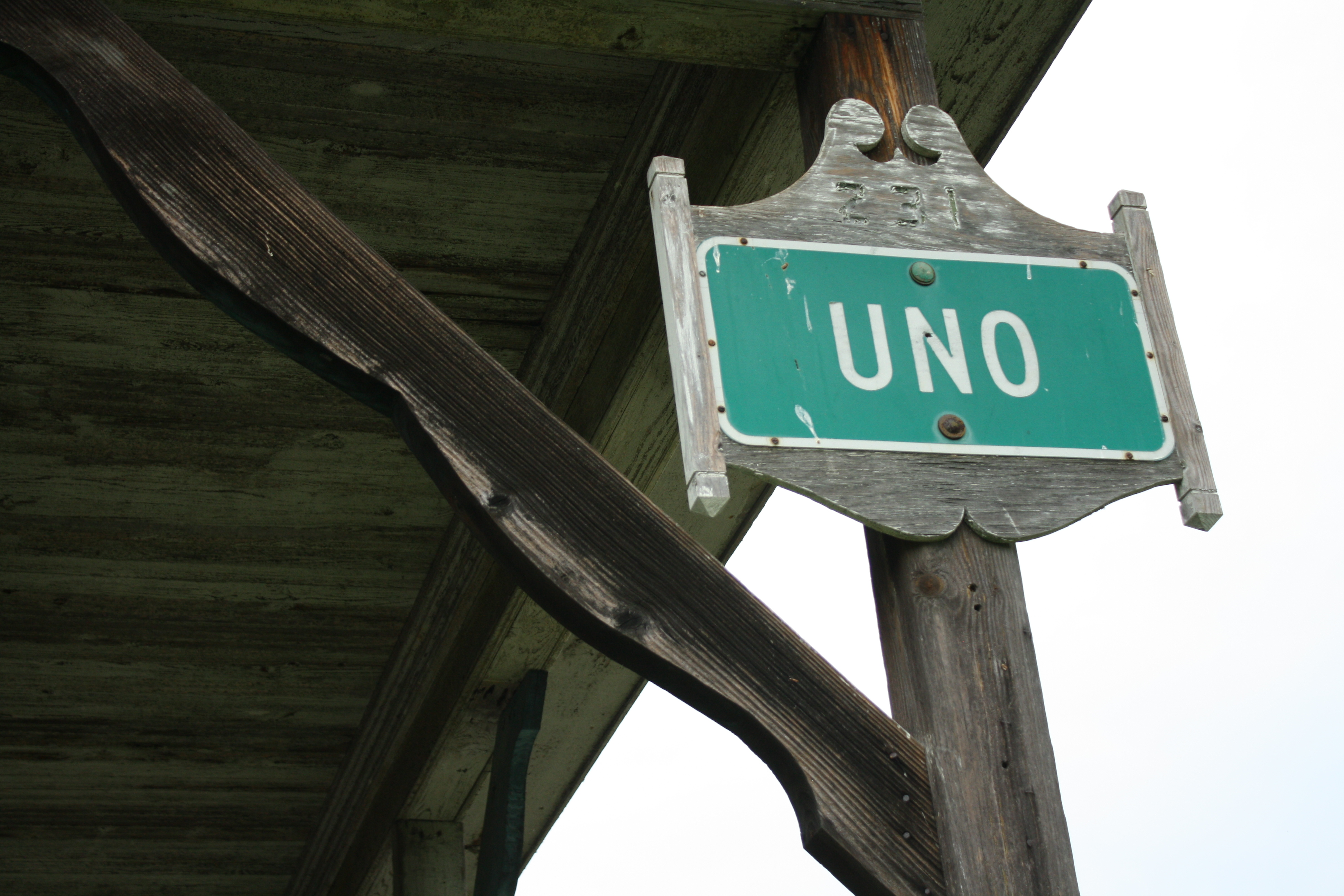 Uno, Virginia